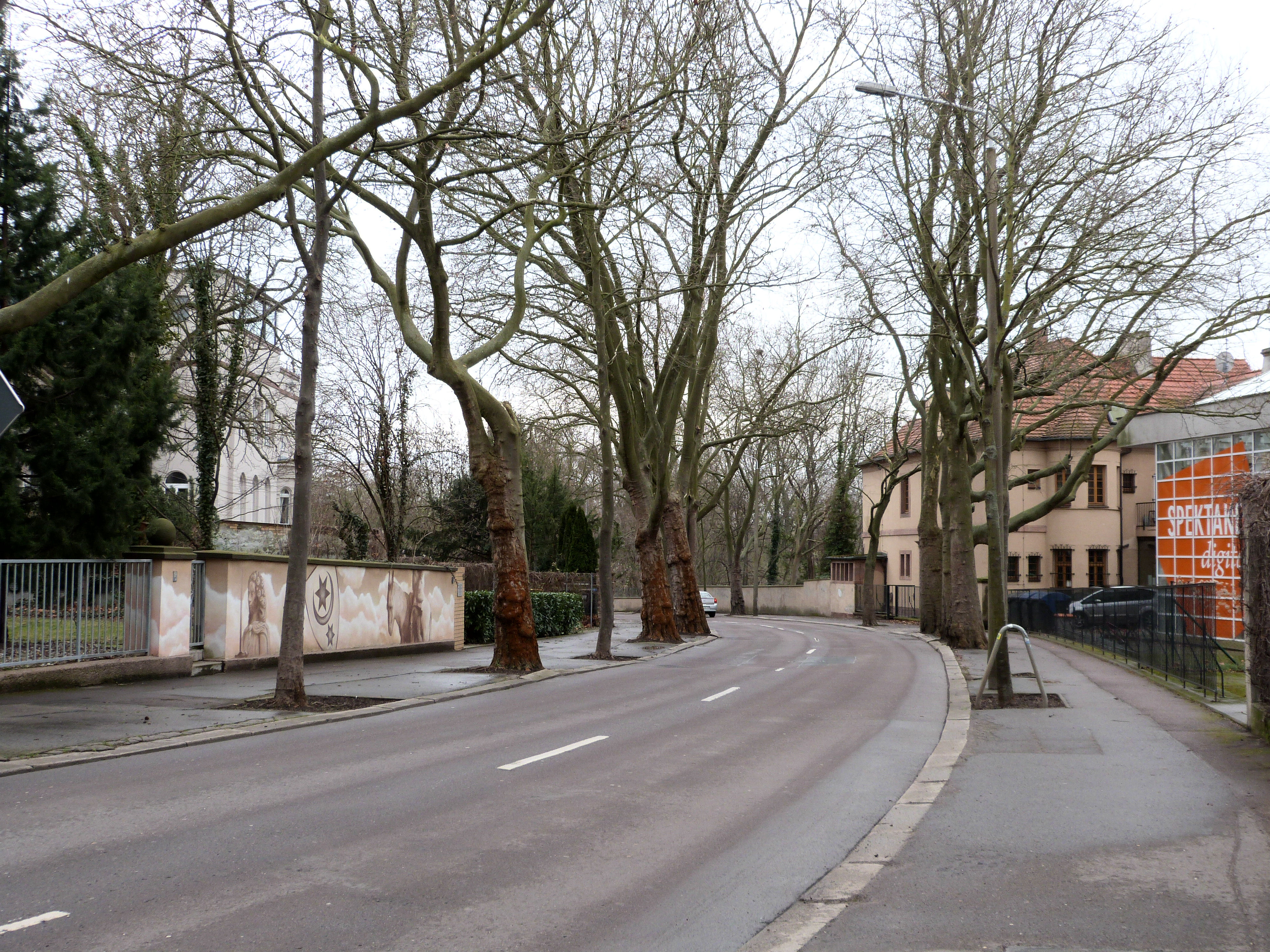 Street Neuwerk in Halle (Saale)